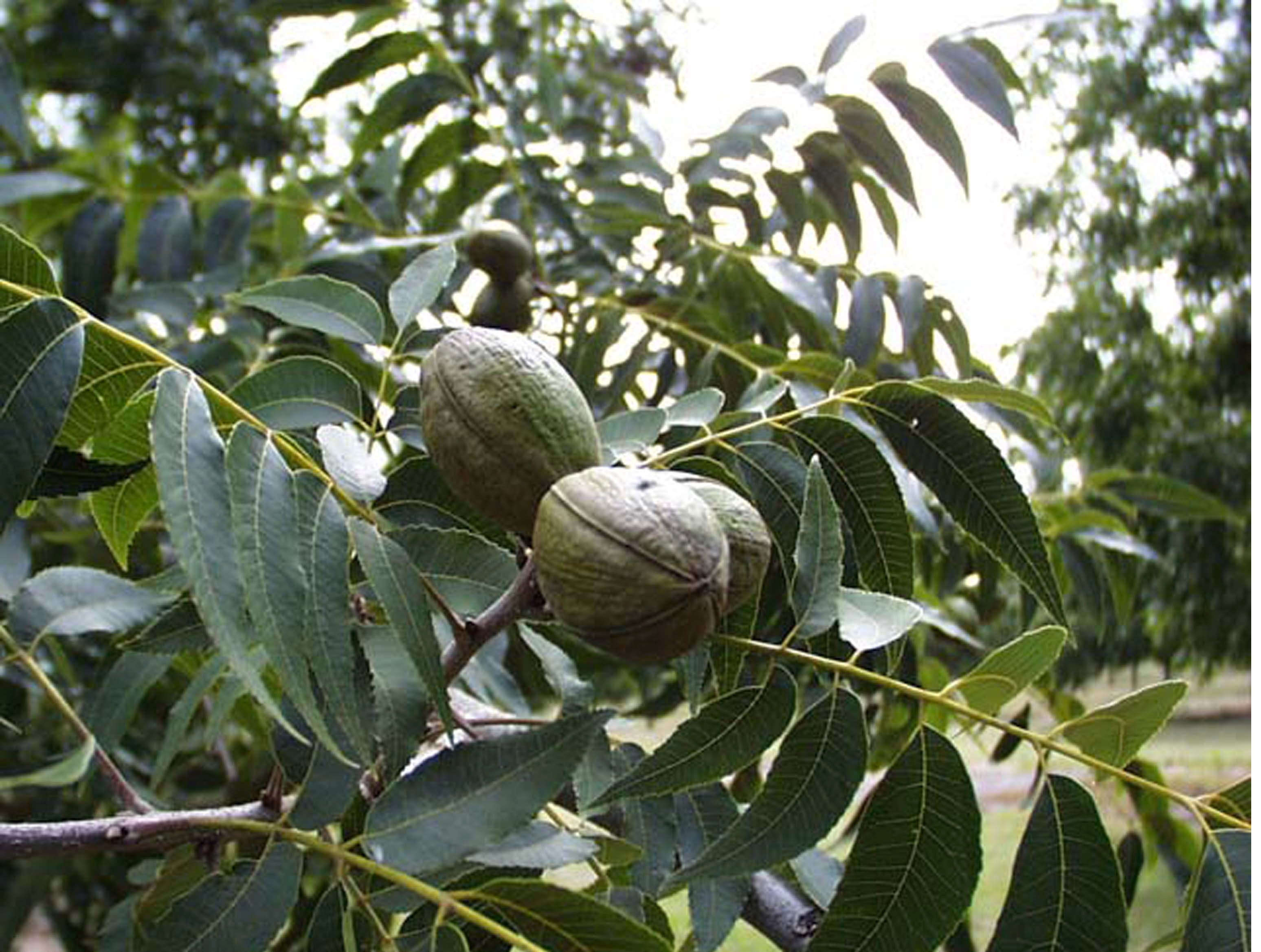 Carya illinoinensis foliage and nuts